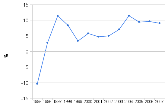 Belarusion GDP grow (1995-~2007), source - estimate for 2007 - (